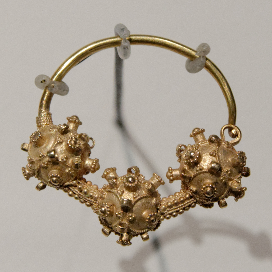 Earring, one of a pair found during excavations near the Church of Holy Salvation near the spring of the Cetina river in Croatia.